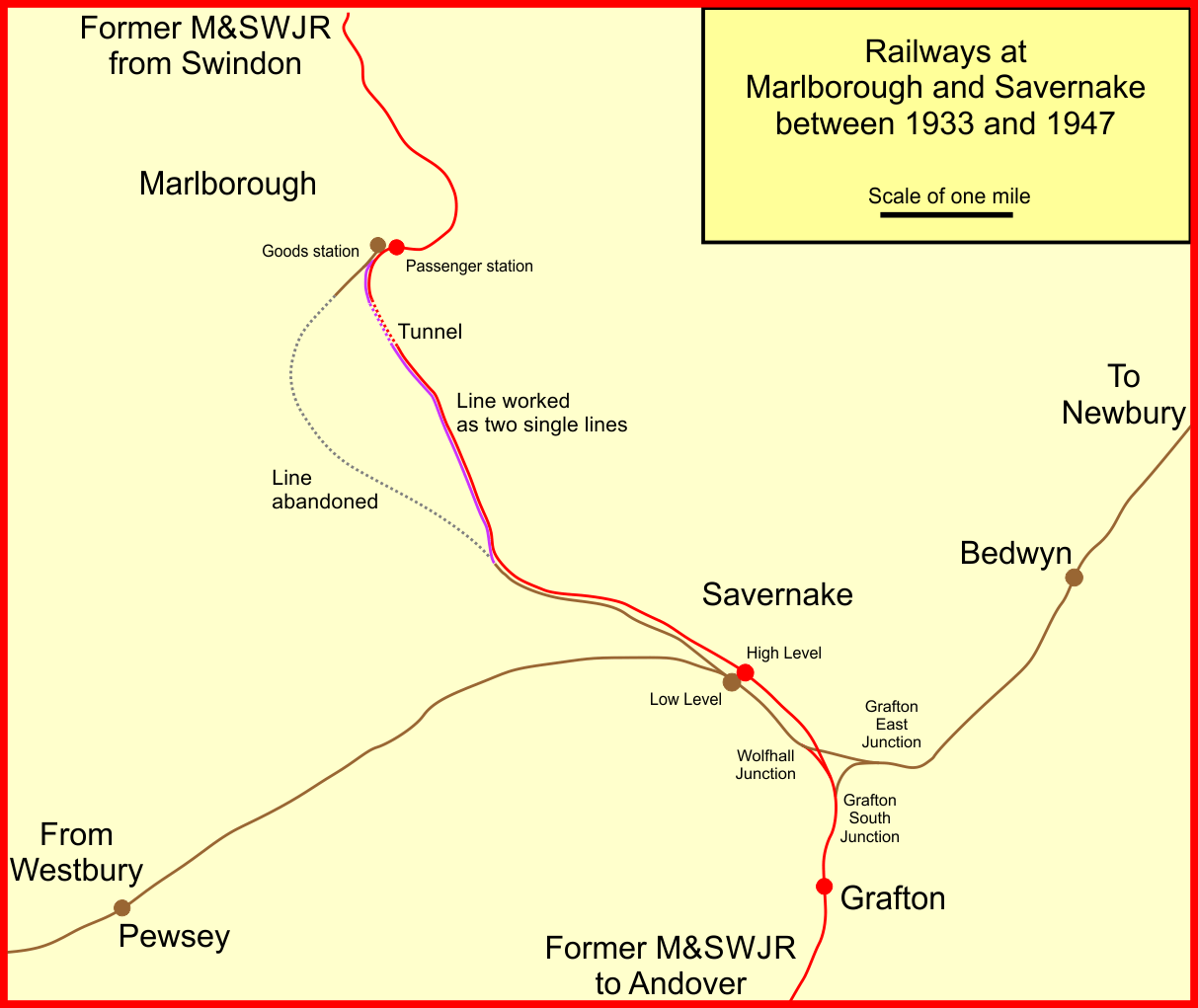 Map of railways in Marlborough and Savernake area from 1933 to 1947